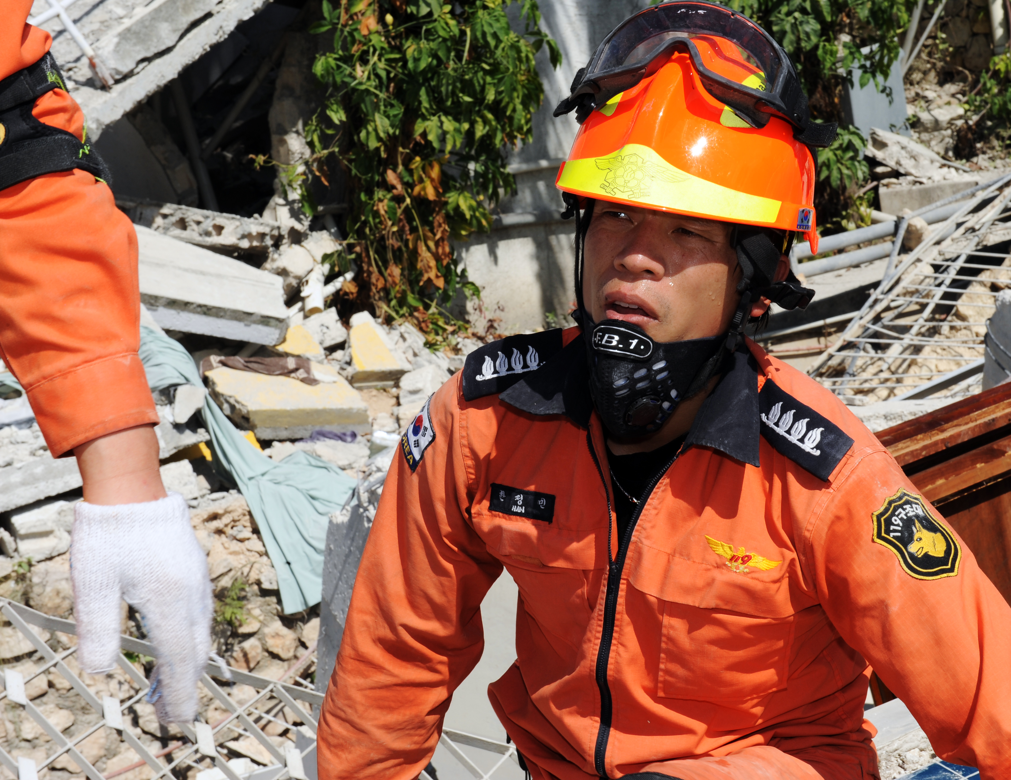 서울특별시 소방재난본부 소장 사진. photos of Seoul Metropolitan Fire&Disaster Headquarters. 이 파일은 크리에이티브 커먼즈 저작자표시-동일조건변경허락 4.0 국제 라이선스로 배포됩니다. 단 특정할 수 있는 개인이 미디어 자료에 포함되어 있을 경우 사용 전에 서울특별시 소방재난본부 및 해당 인물의 승인을 받으셔야합니다. 감사합니다.